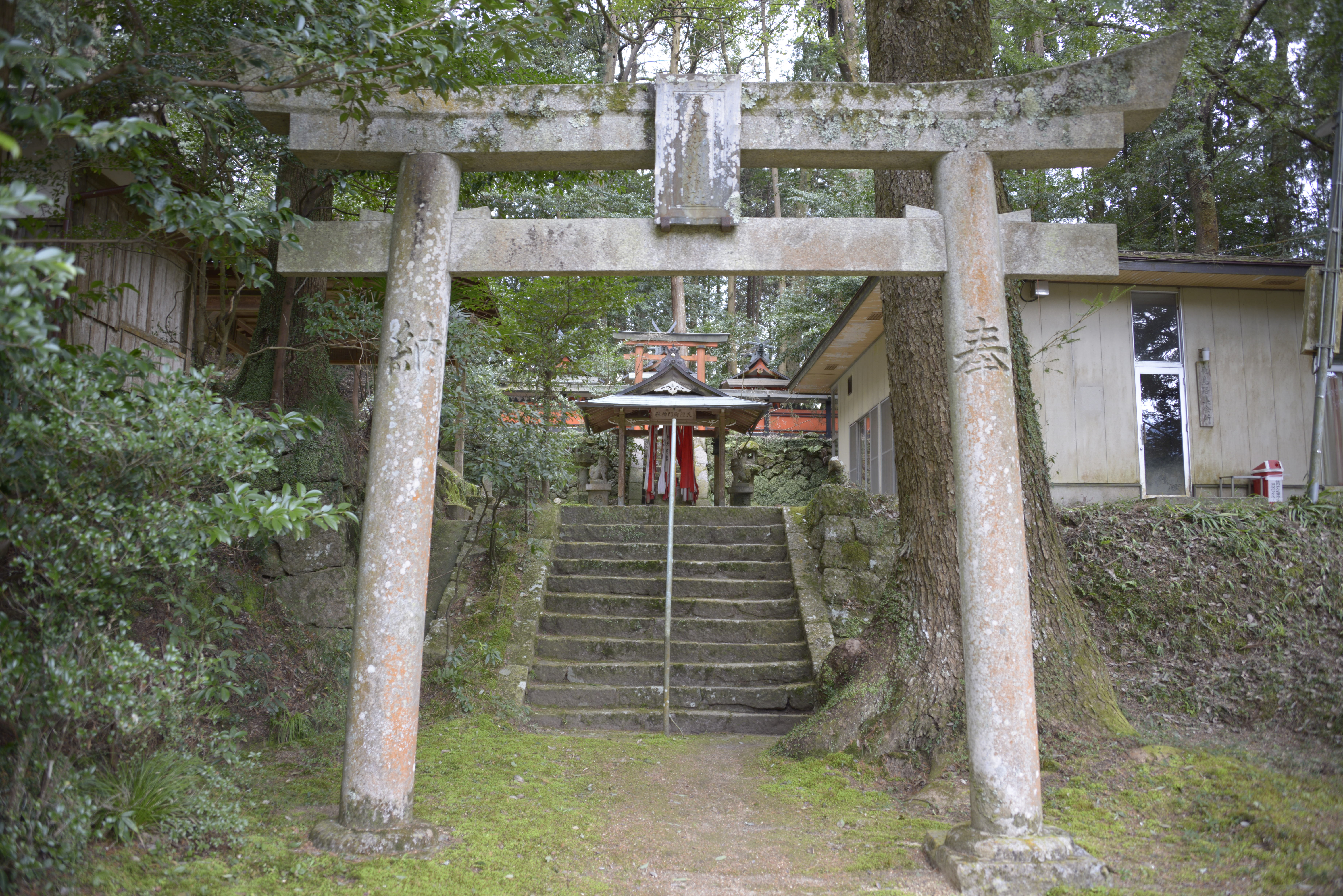 kasagi,kyoto